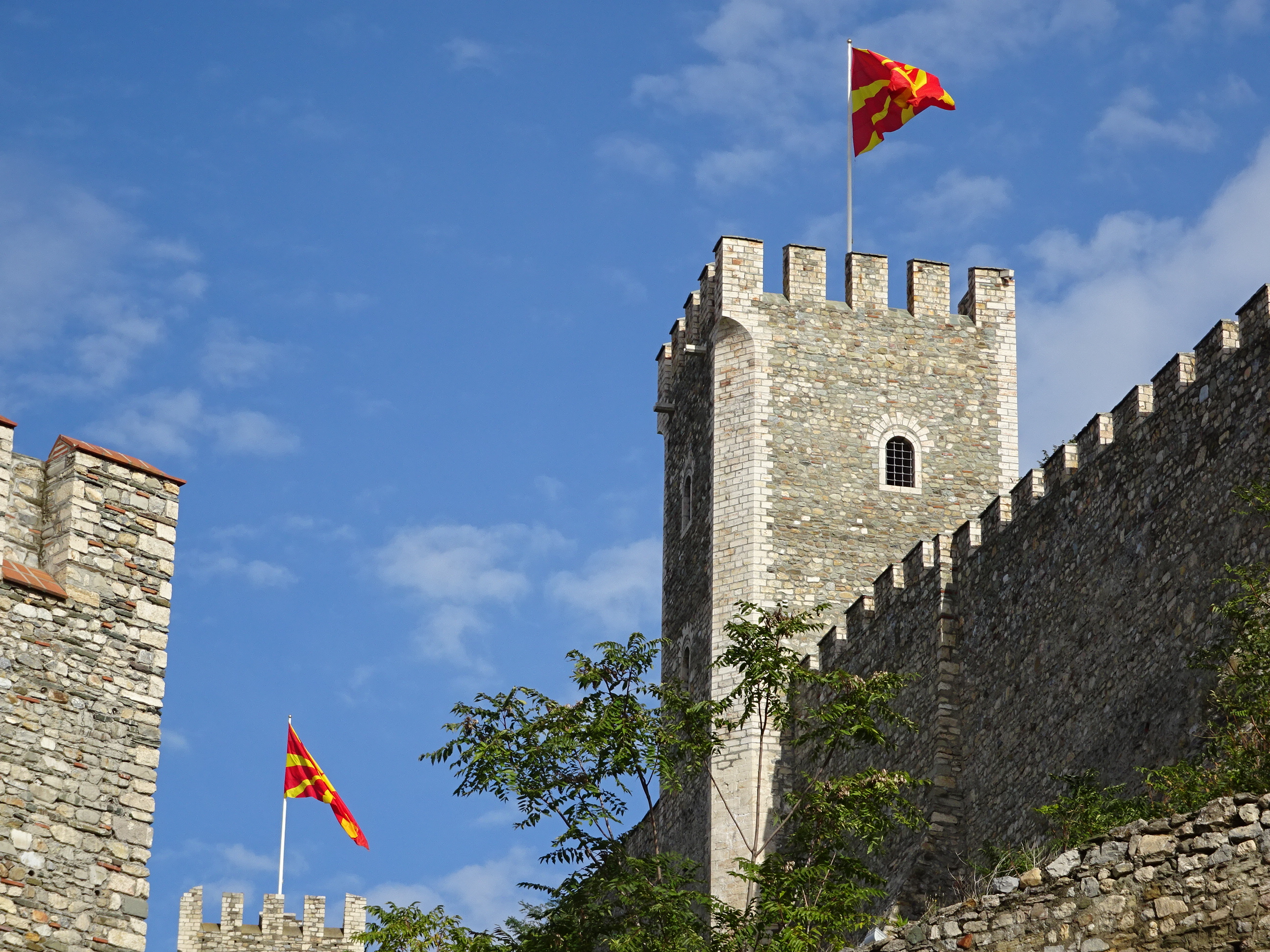 Fortress Skopje-Macedonia Ова е фотографија на споменик на културата во Македонија со типски код: E02This is a a photo of a cultural monument in North Macedonia with type id: E02